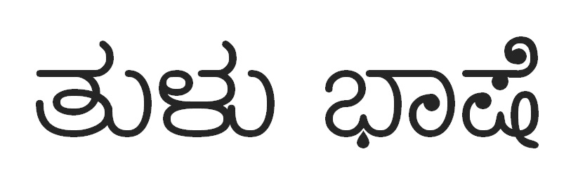 This is ತುಳು ಭಾಷೆ written in Kannada script.